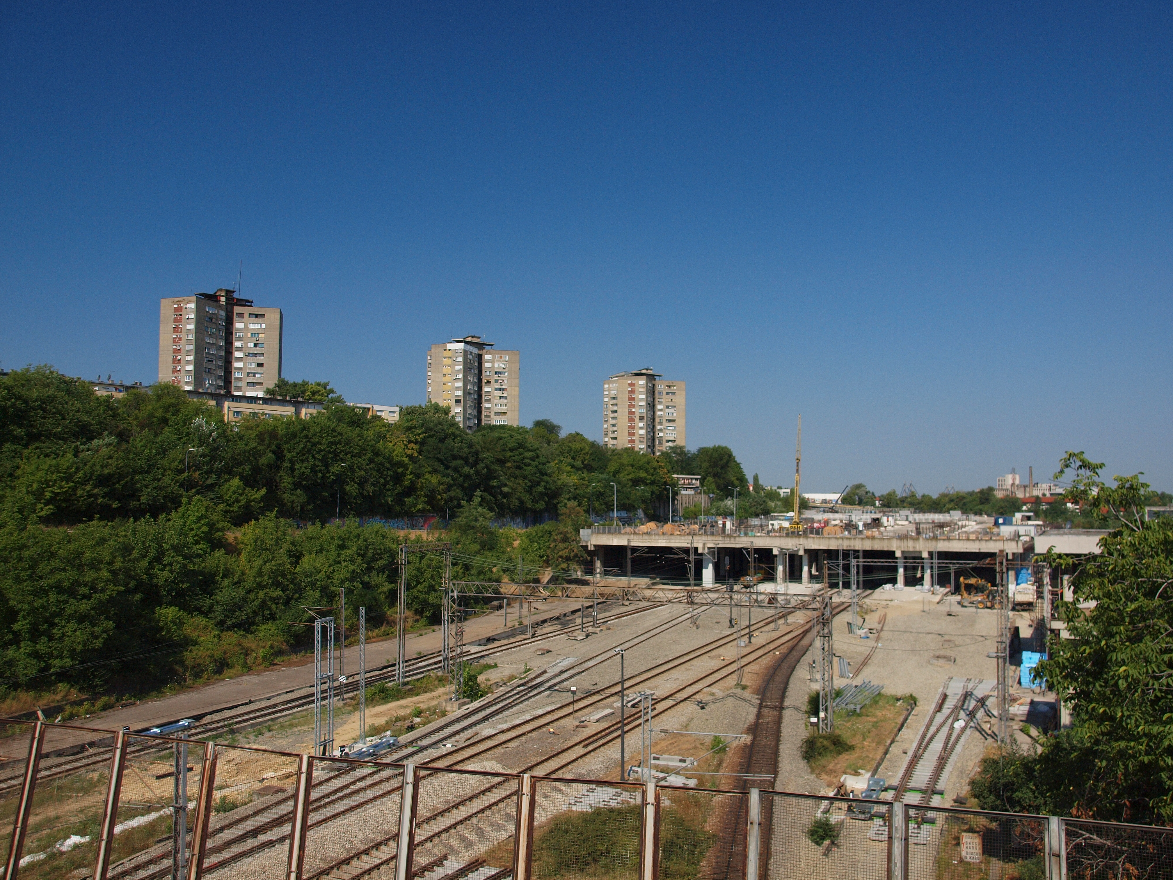 Prokop July 25 2015 13